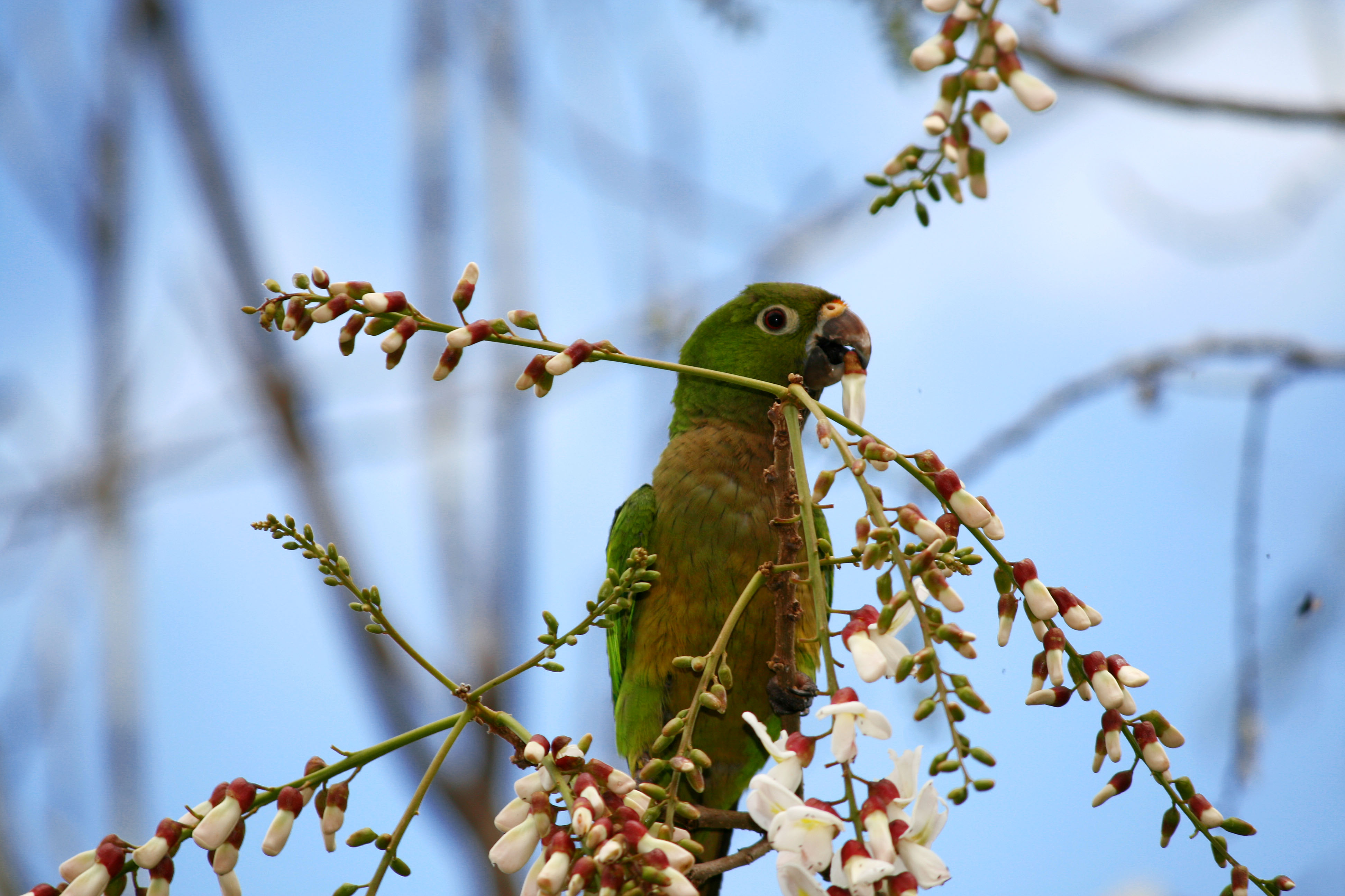 An Aztec Parakeet in Tikal, Guatemala.